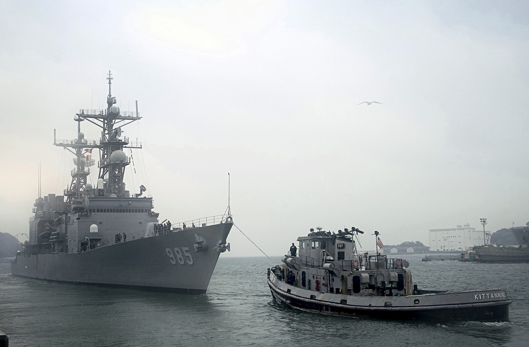 The US Navy (USN) Spruance Class Destroyer, USS CUSHING (DD 985) is pushed out to sea from Commander Fleet Activities Yokosuka (CFAY), Yokosuka, Kanagawa Prefecture, Japan (JPN), by the Large Harbor Tug (YTB) KITTANNING (YTB 787).